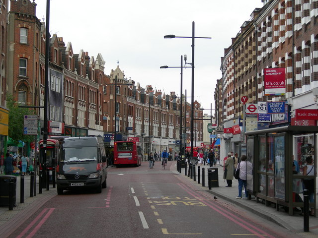 St John's Road SW11. This is a busy shopping area, photo was taken near the junction of Battersea Rise. It is the "opposite" to this picture. 183854